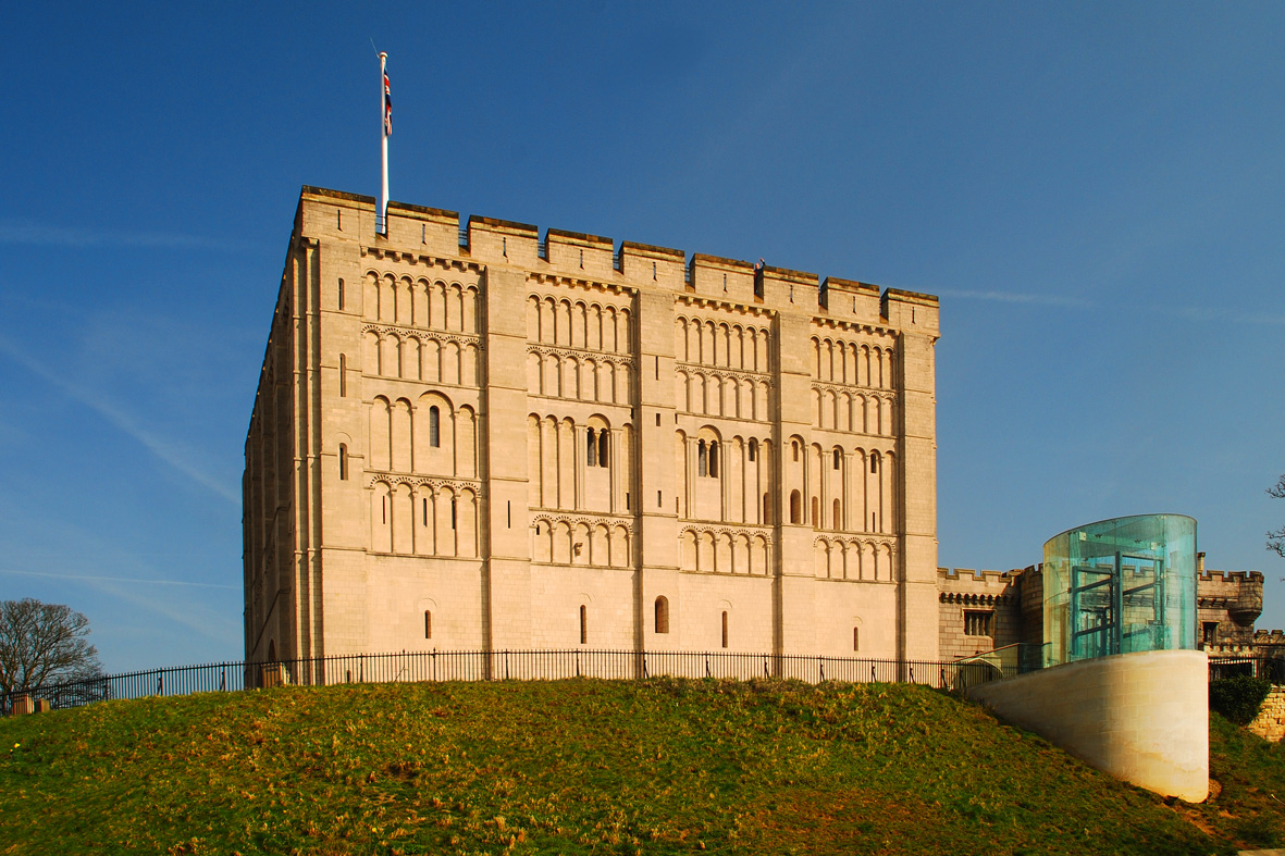 The Norman keep of Norwich Castle. On the right is a lift.